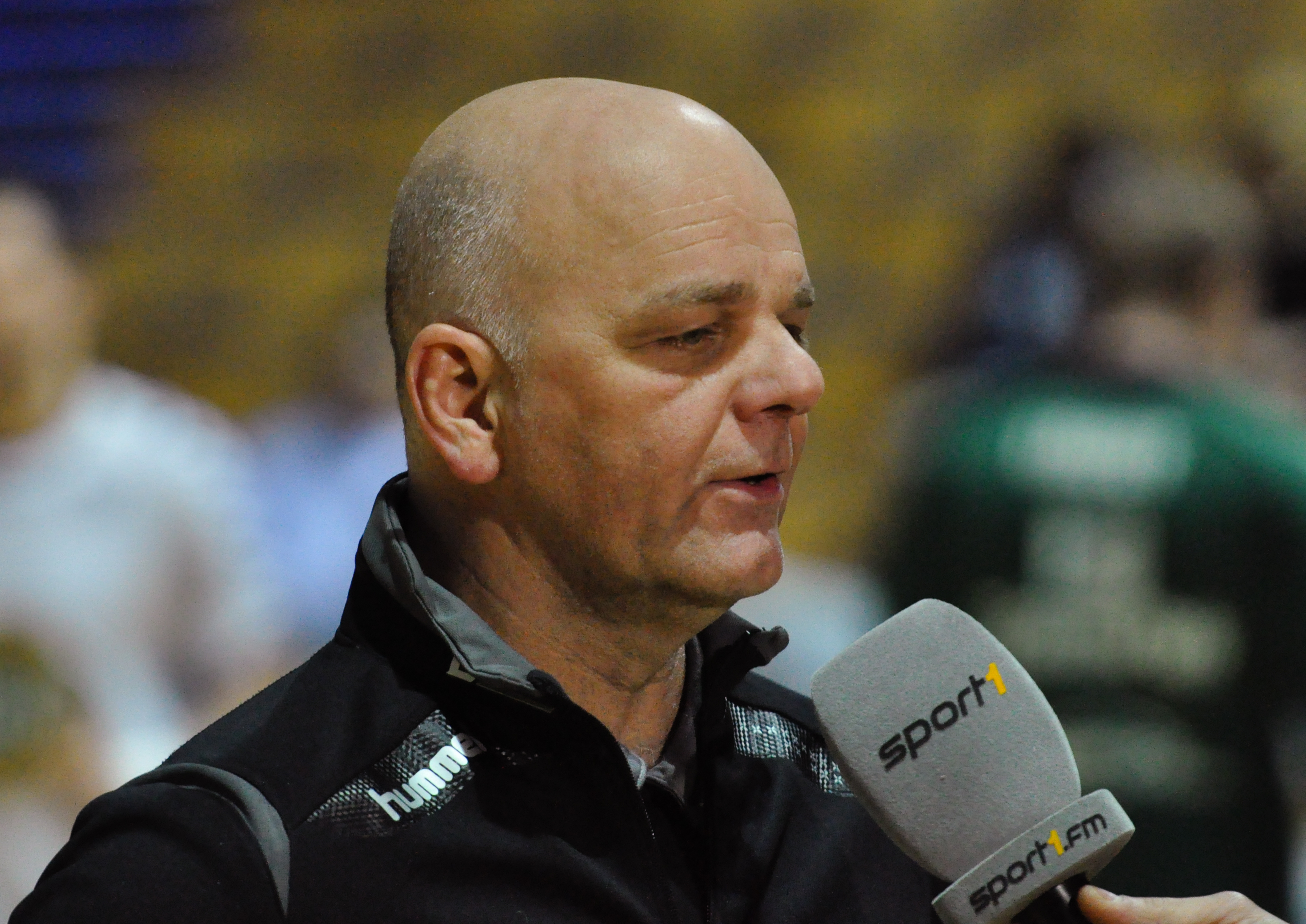 taken on February 8, 2014 during DKB Handball-Bundesliga match between HSG Wetzlar and HSV Hamburg